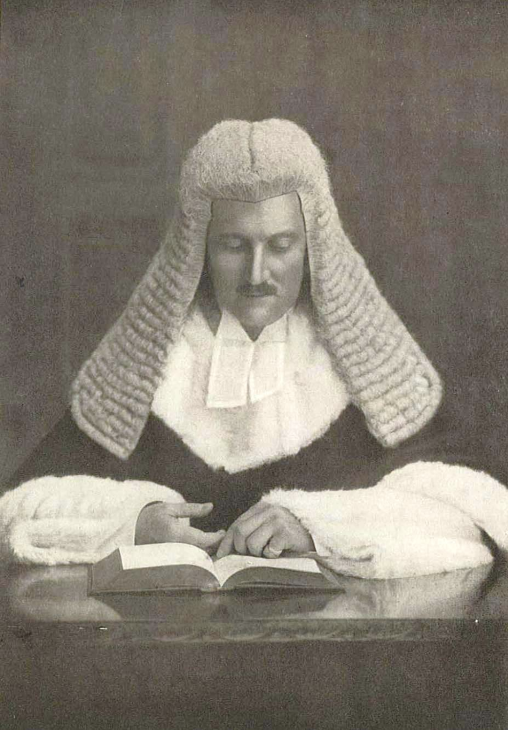 A portrait in 'Hermes' of Chief Justice Sir Philip Whistler Street, KCMG in June 1918